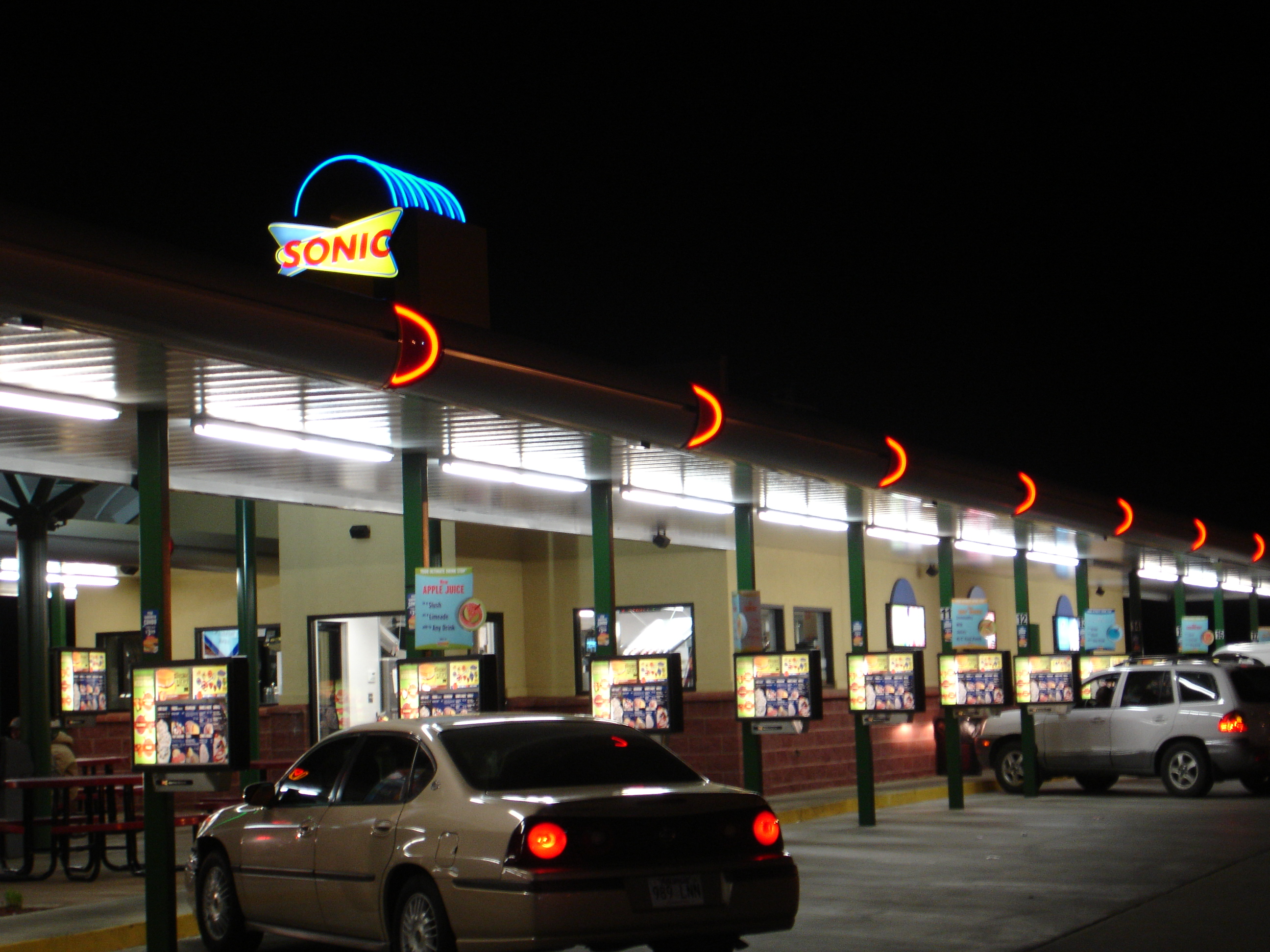 Sonic Drive in at night in Jacksonville, AR.